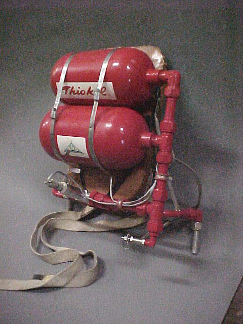 This is a rocket belt, also called a jet pack, projected since 1958 was built by the Reaction Motors Division (RMD) of the Thiokol Chemical Corporation, in Denville, New Jersey.